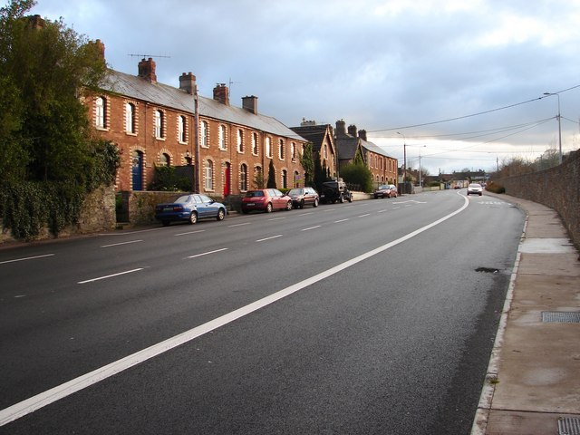 Grange Road View of some of Grange Road's terraced houses near the junction with West Douglas Street.